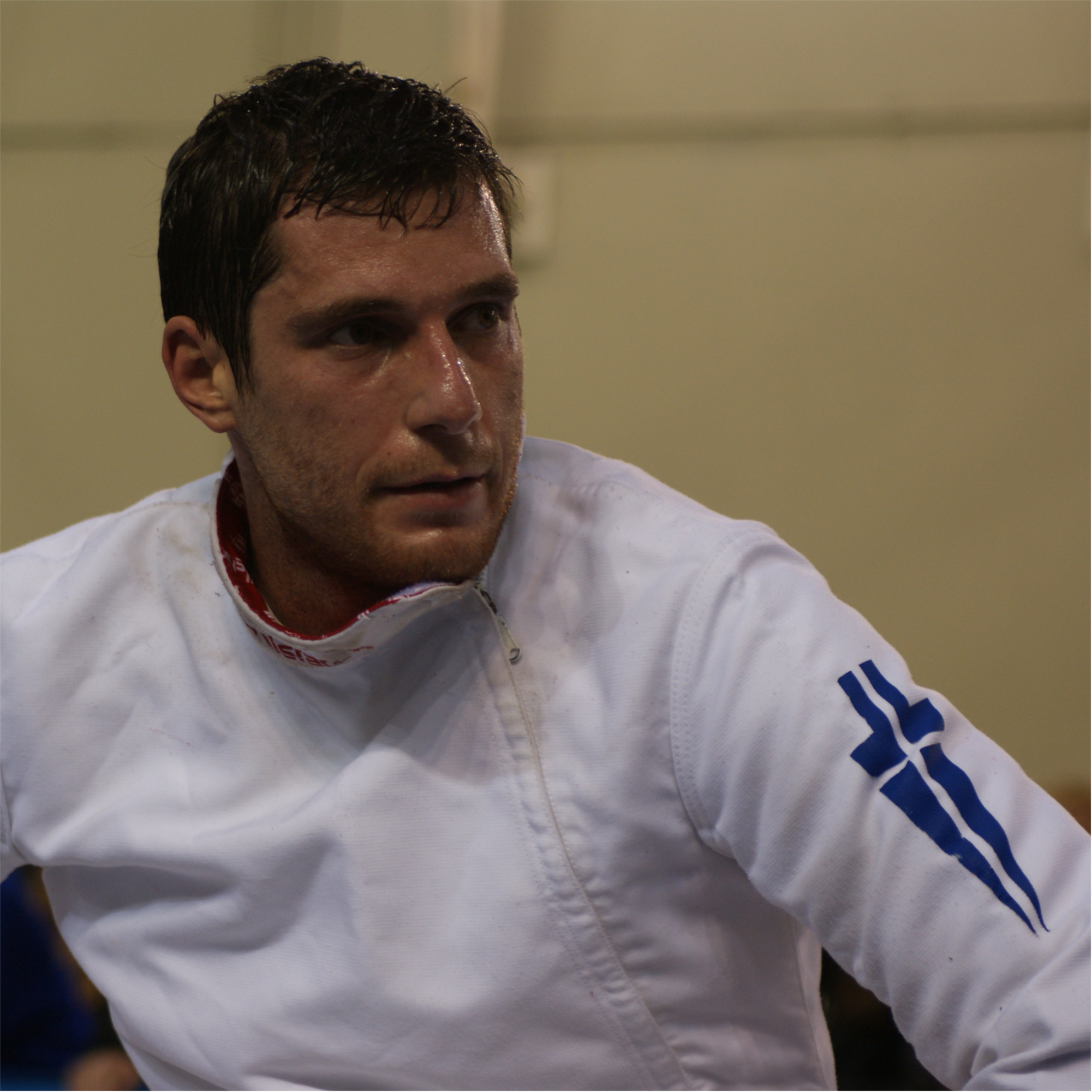 Greek fencer Alexandros Kontogiannis in 2013